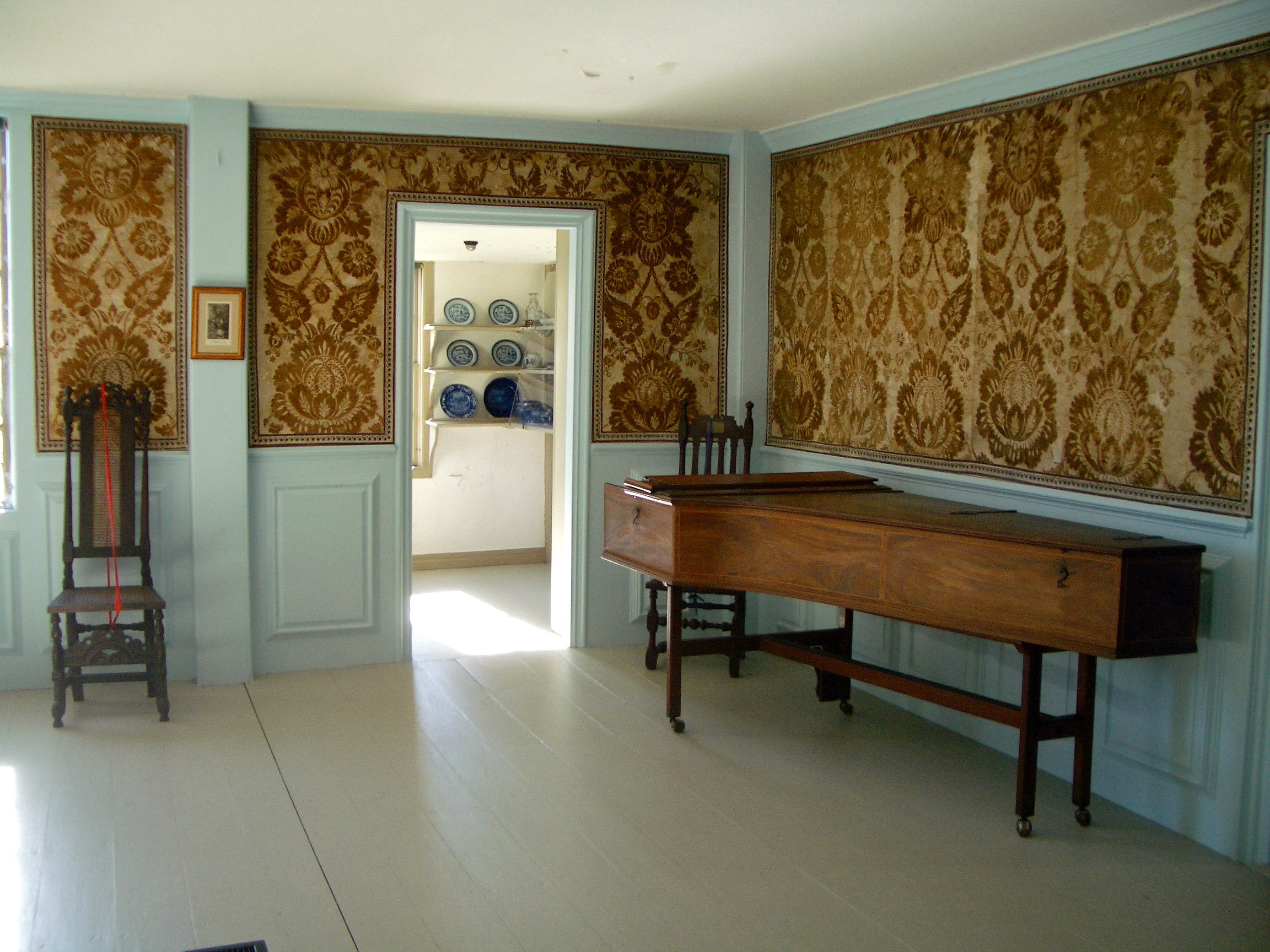 Wentworth-Coolidge Mansion parlor in family wing, showing Longham and Broderip Harpsichord, London, 1779-1785. Eighteenth-century wallpaper. Bolection molding on dado. Late seventeenth-century William and Mary style chairs introduced to house by Cushing family in the late-nineteenth or early-twentieth century. Glimpse through door into china closet.